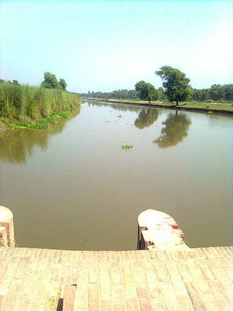 Lower Bari Doab Near UC 110/7R.